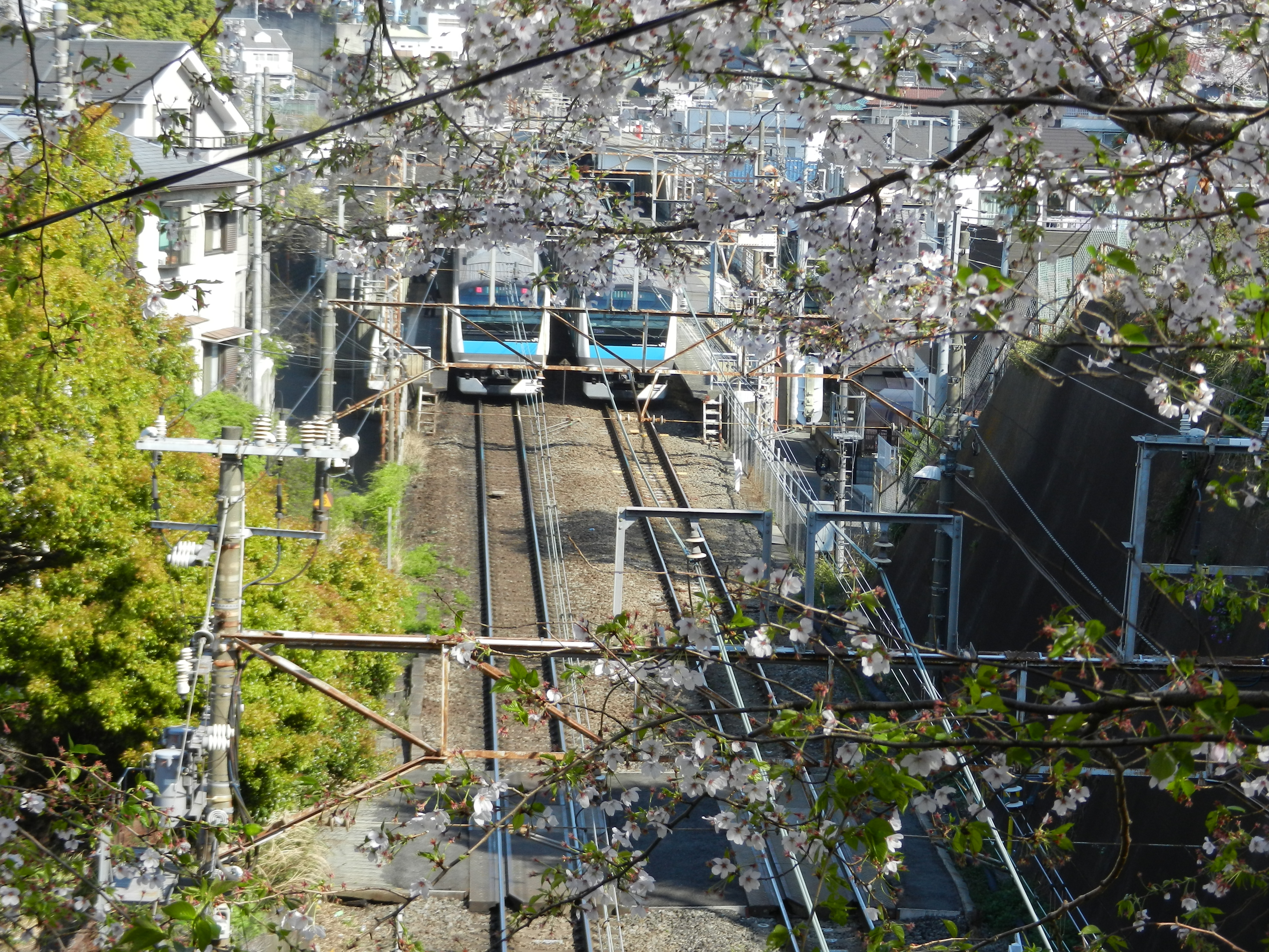 Yamate Station, Apr. 2011